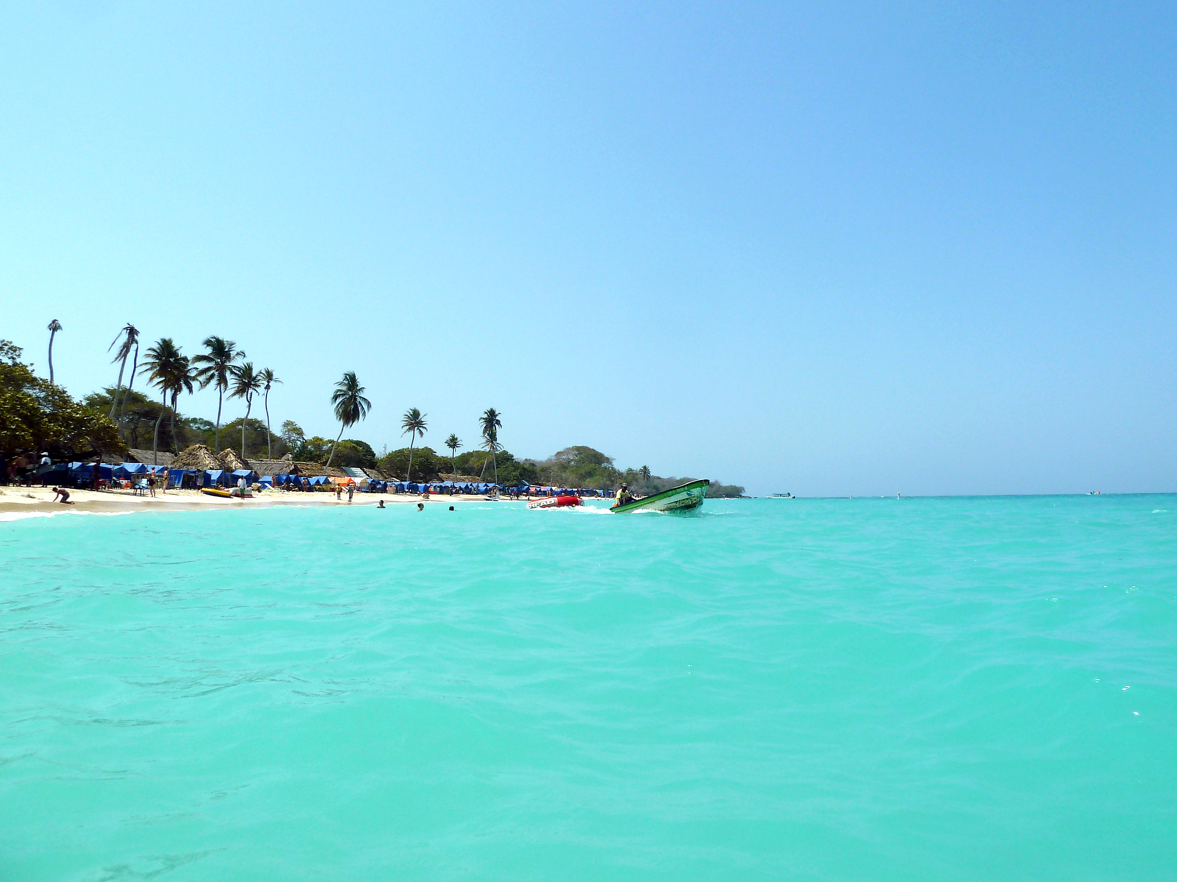 Playa Blanca on Isla Baru outside of Cartagena, Colombia.